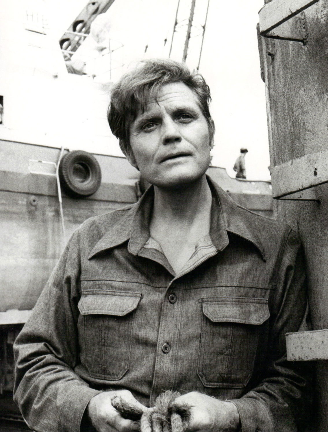 Photo of Jack Lord as Steve McGarrett from the television program Hawaii Five-O.